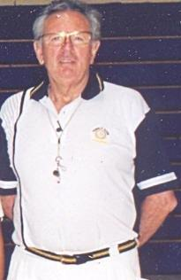 Antonio Díaz Miguel during a basketball campus.